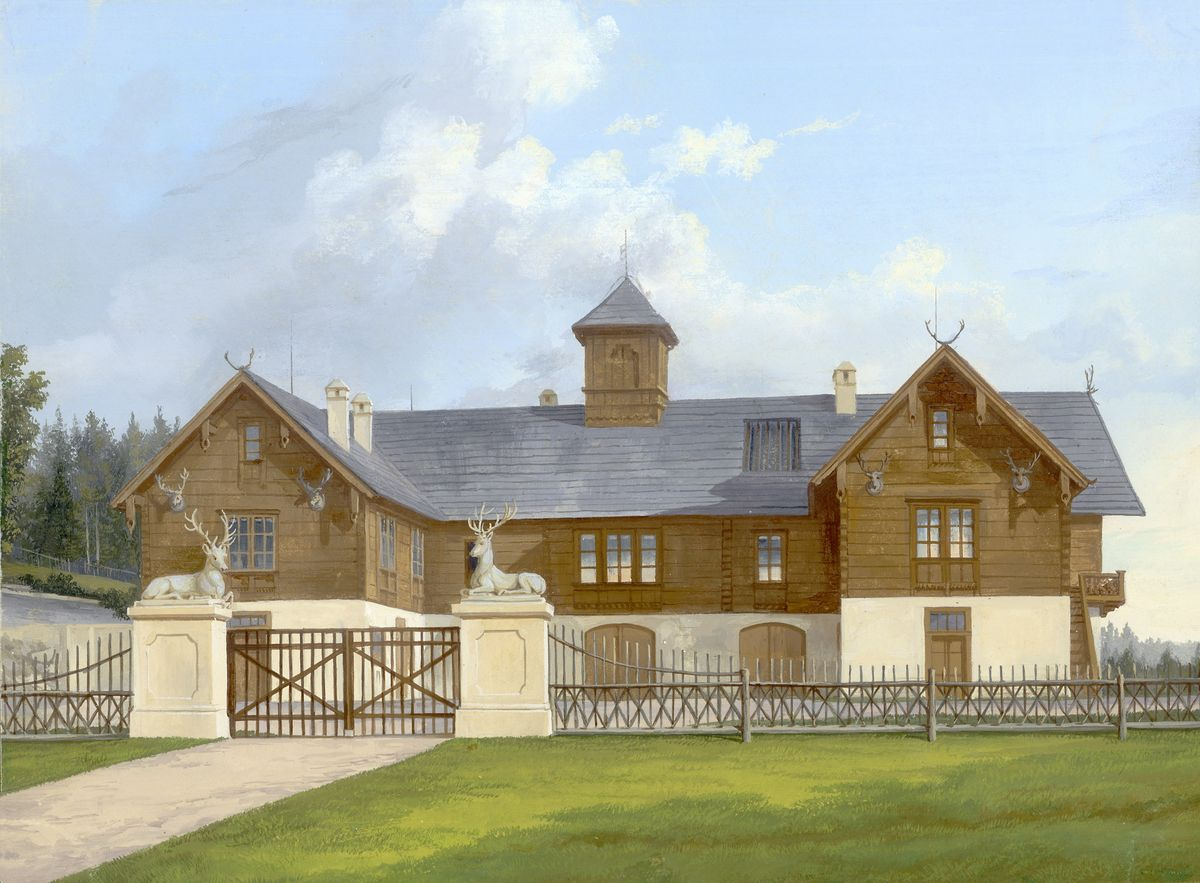 View of the Žofín mansion over main gate